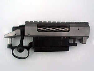 PGWDTI Timberwolf bolt action with a receiver made out of titanium and a bolt out of stainless steel.